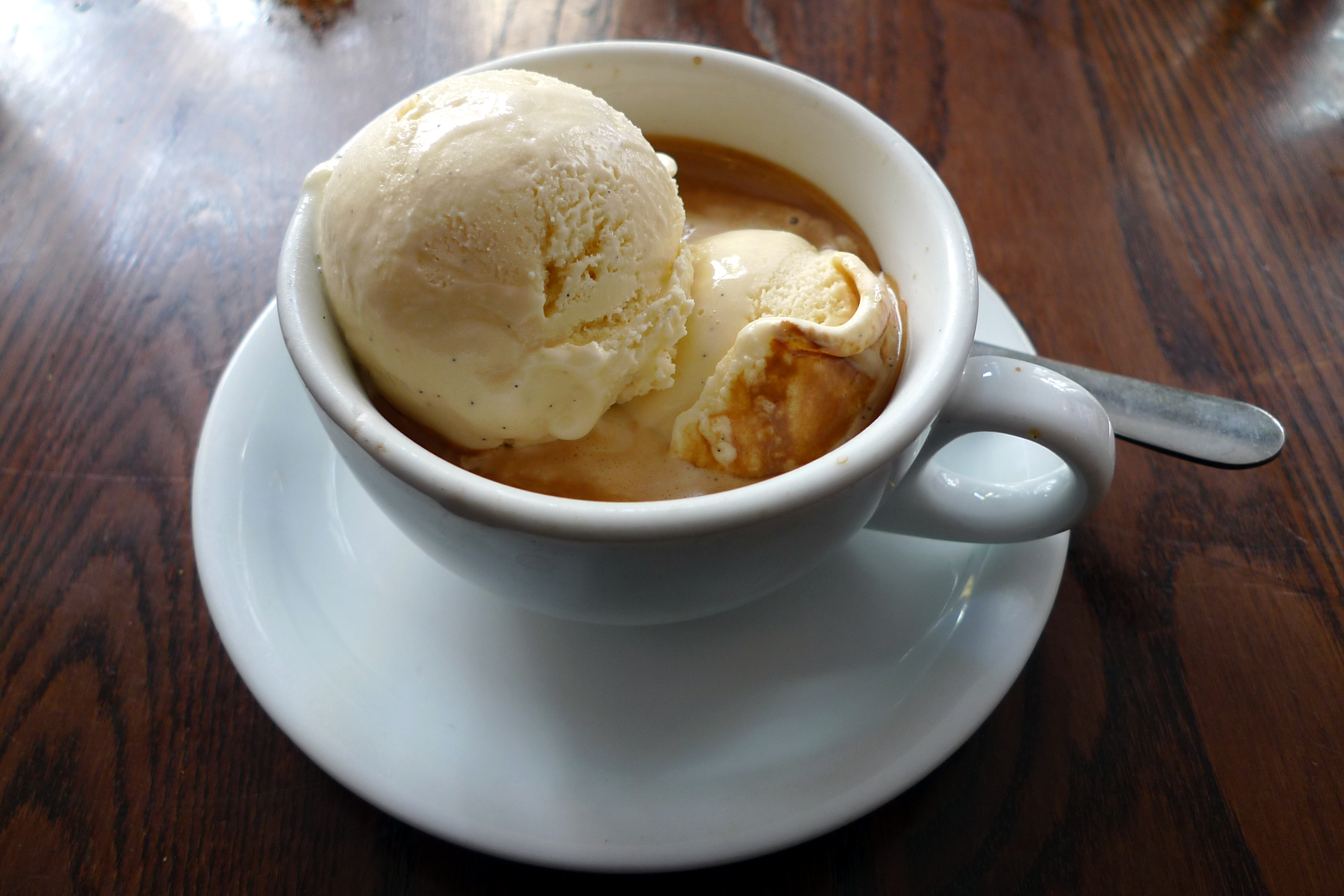 An affogato, never fails to make me happy. At Vinoteca, St John Street.